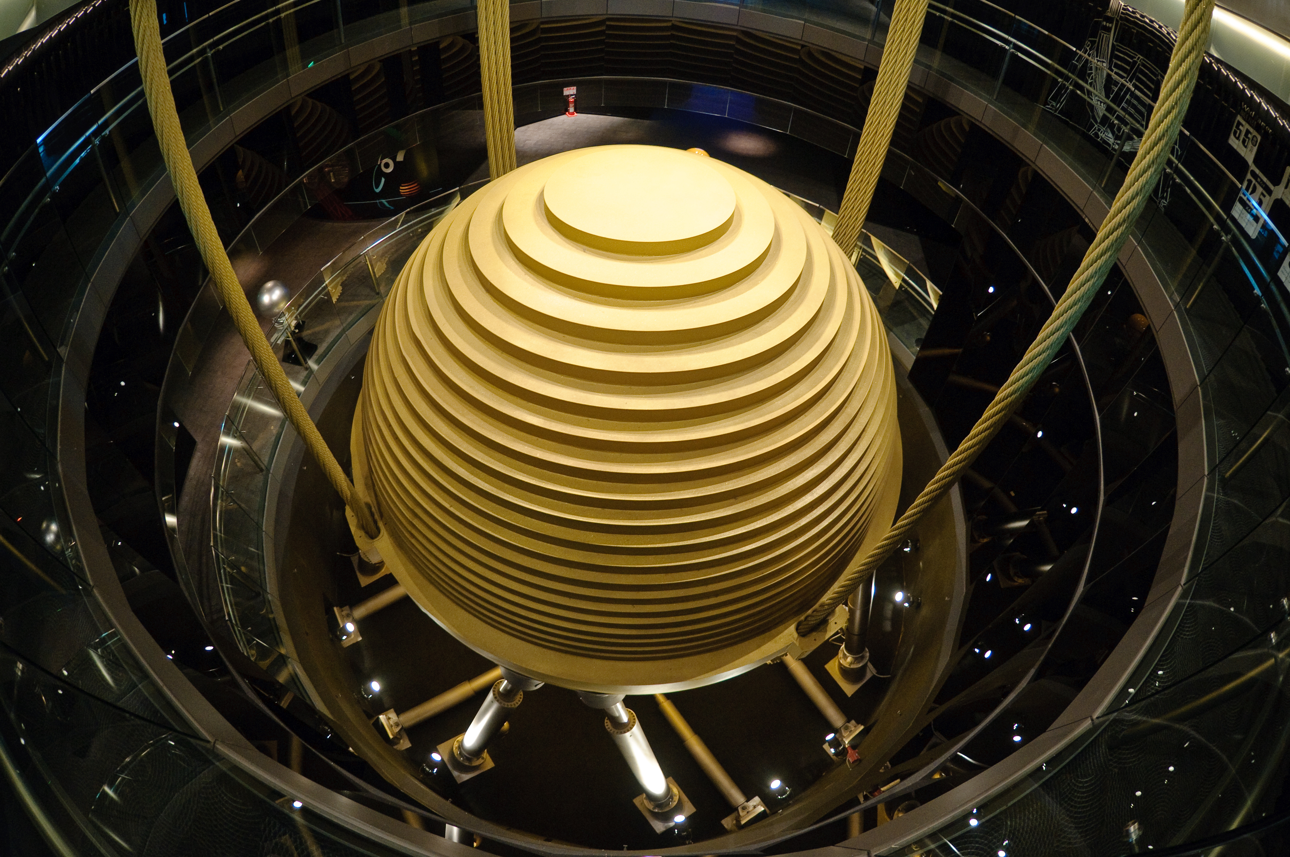 Tuned mass damper on display in Taipei 101. Bân-lâm-gú: Tâi-pak-101 tián-sī ê tiâu-tsit tsóo-nî-khì.